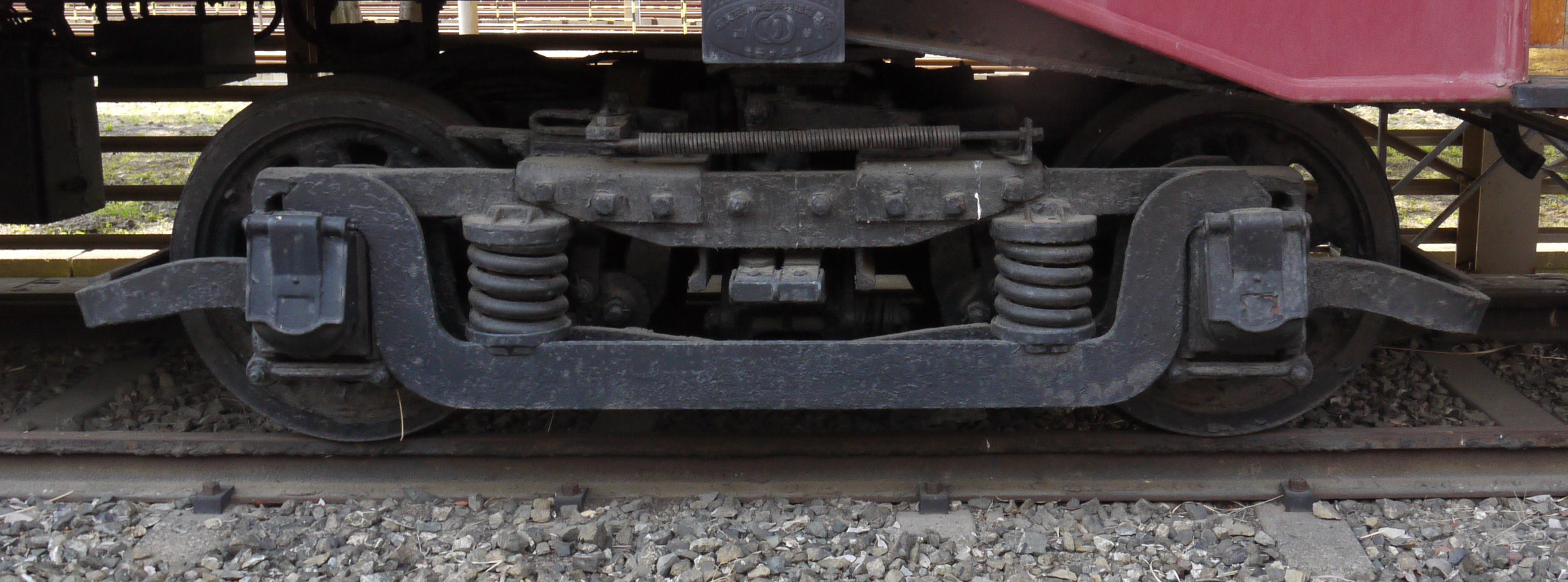 Brill 27-MCB2 on Keihin De 51 preserved at Kurihama depot